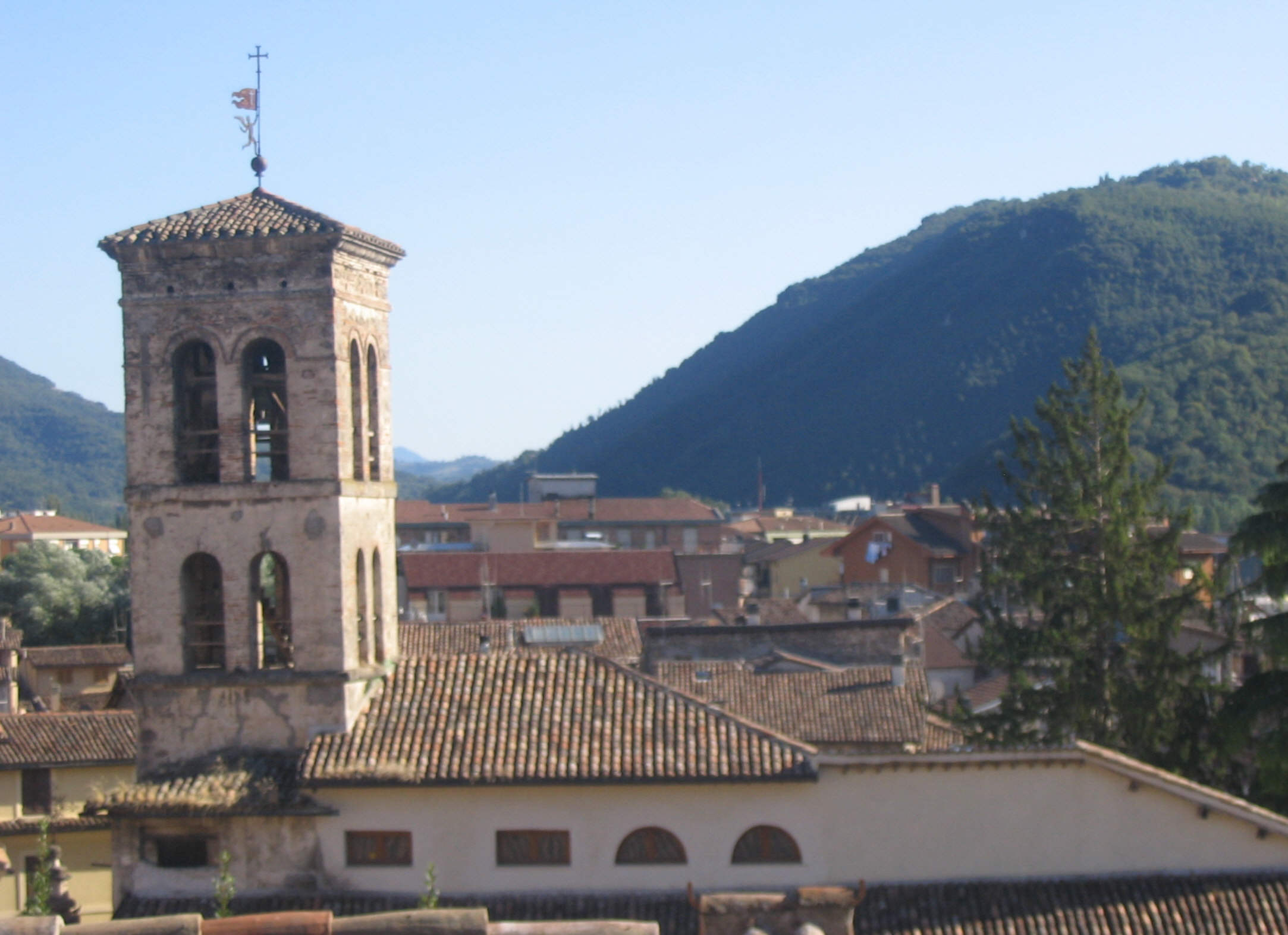 Bell tower of St. Lucy church - Rieti, Lazio, Italia